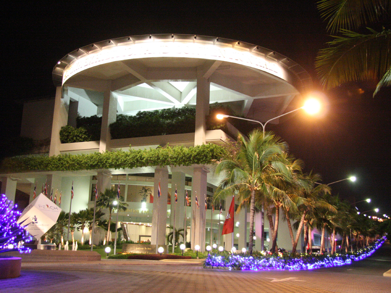 PEACH Entrance